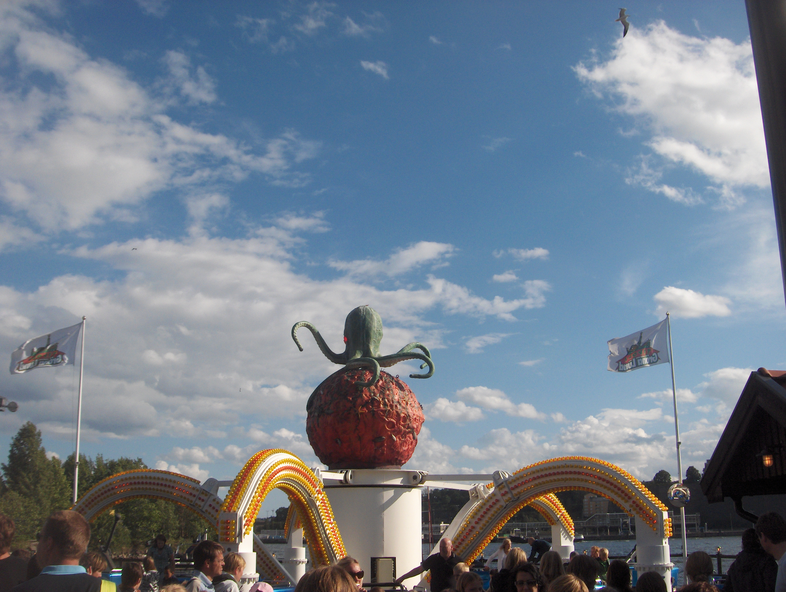 "Bläckfisken" at Gröna Lund summer 2007 (Attraktionen) "Bläckfisken" på Gröna Lund sommaren 2007